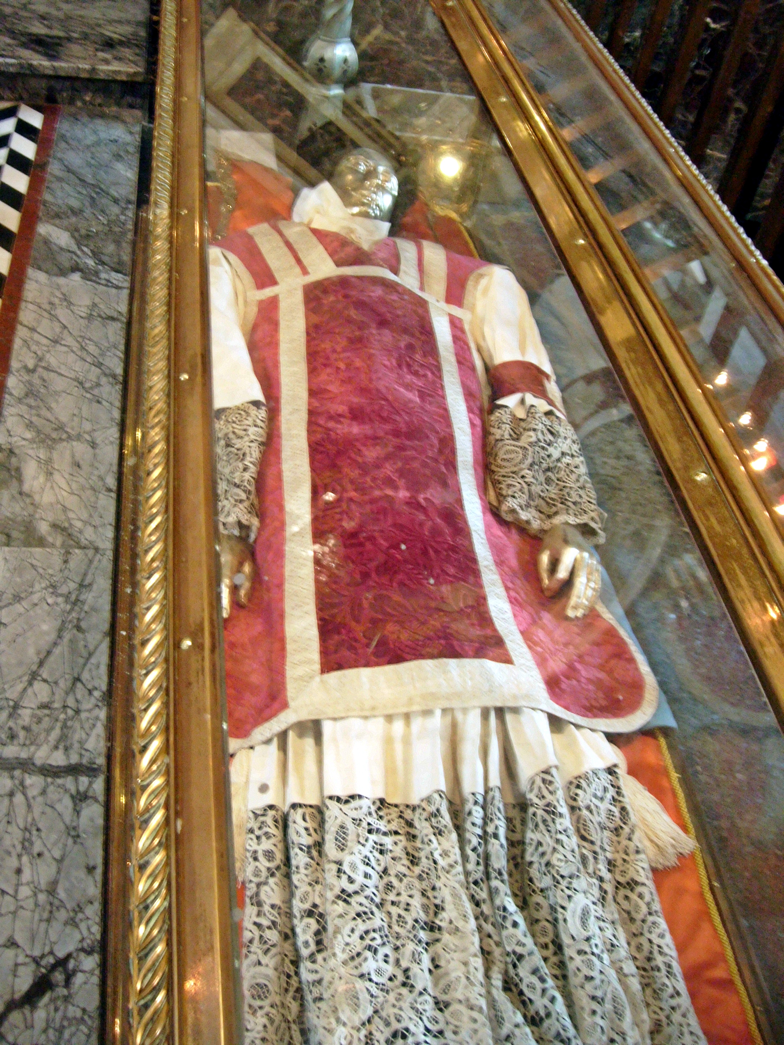 Leib des Hl. John Southworth, (+ 1654), Westminster Cathedral, London